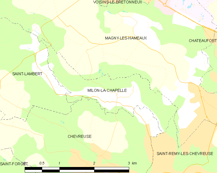 Map of French municipality Milon-la-Chapelle